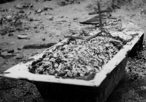 Bath-tub filled with ashes of the wounded Warsaw insurgents and civilians murdered by German troops after the fall of Warsaw’s Old Town (2nd September 1944). This Bath-tub was discovered at Wąski Dunaj street after the liberation of Warsaw in 1945.